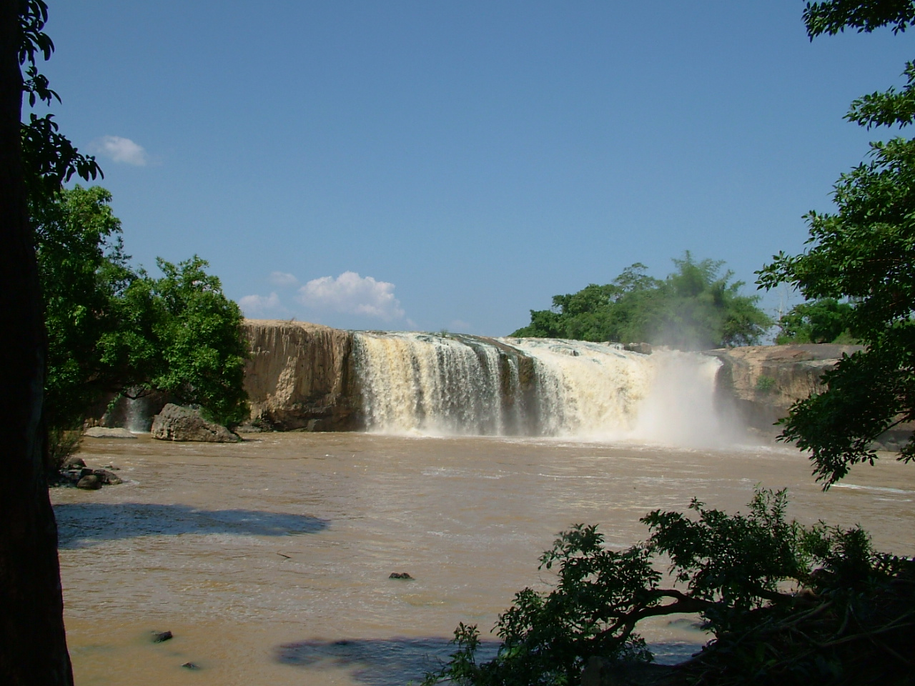 Dray Sap Waterfall